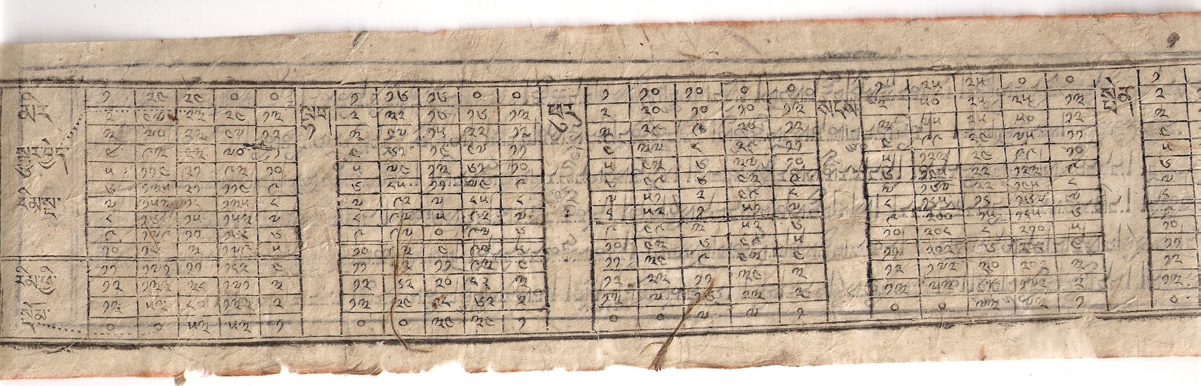 Tibetan chart for the calculation of the geocentric lengths of the five planets. From an old Tibetan blockprint (1918).